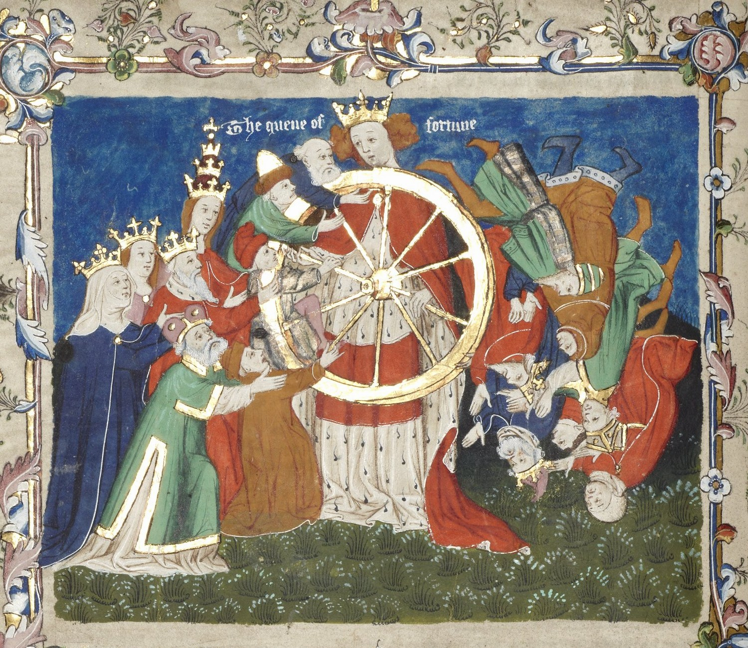 Illustration from John Lydgate's Siege of Troy, showing the Wheel of Fortune held/turned by the Quene of Fortune. On the left, Dame Doctryne is accompanyied by two male figures, Holy Texte and Scrypture, and two female figures, Glose and Moralyzacion. They are shown helping people rise on Fortune's Wheel because, Lydgate says, scripture is about that which shall fall.